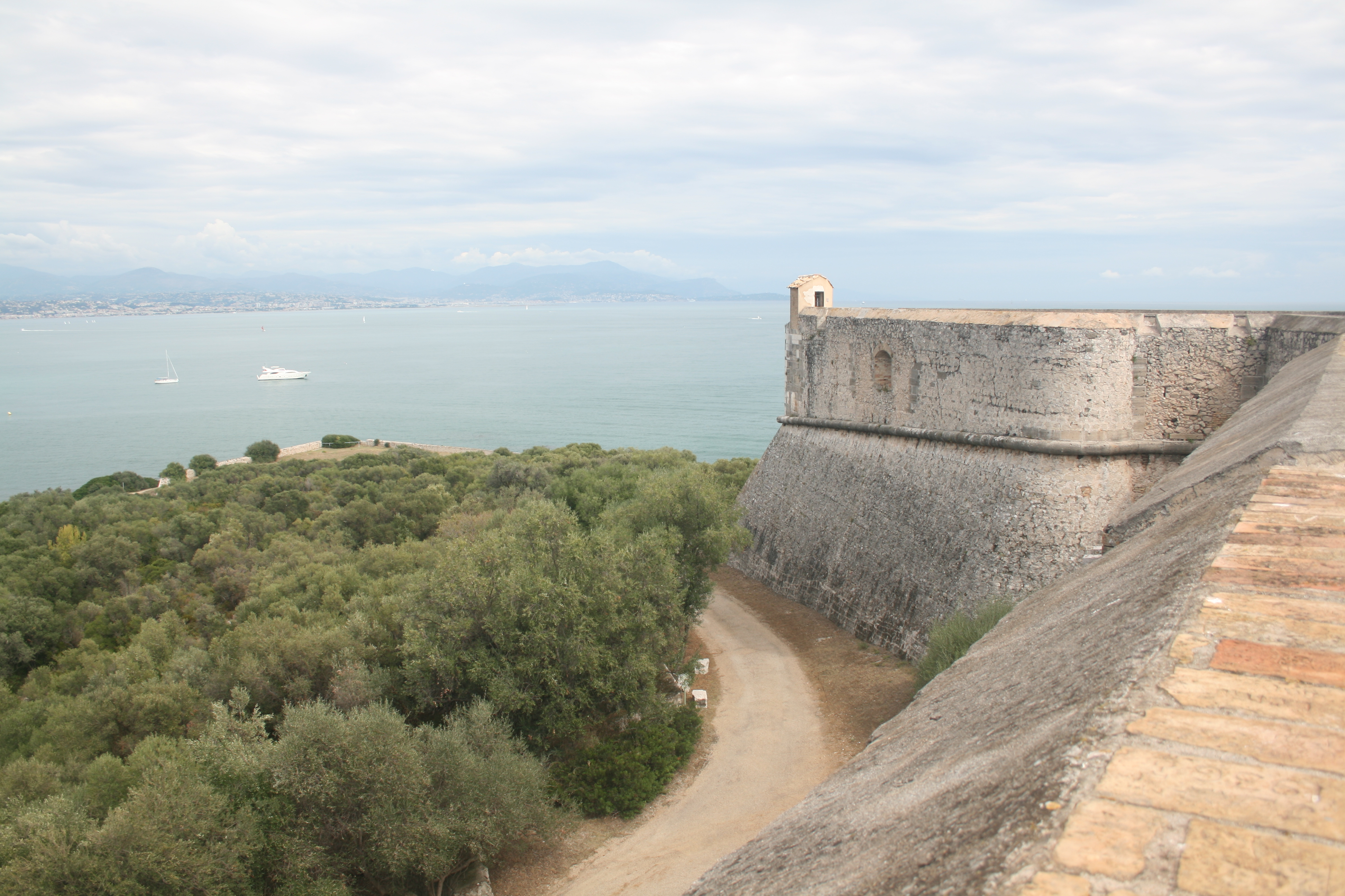 East point of Fort Carré, in Antibes, seen from de North point.